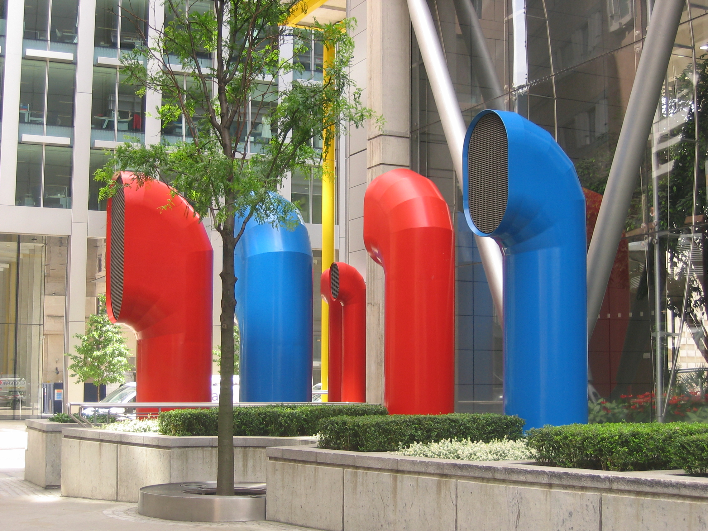 Red and blue funnel like ventilation on London Wall, part of 88 Wood Street by Richard Rogers.